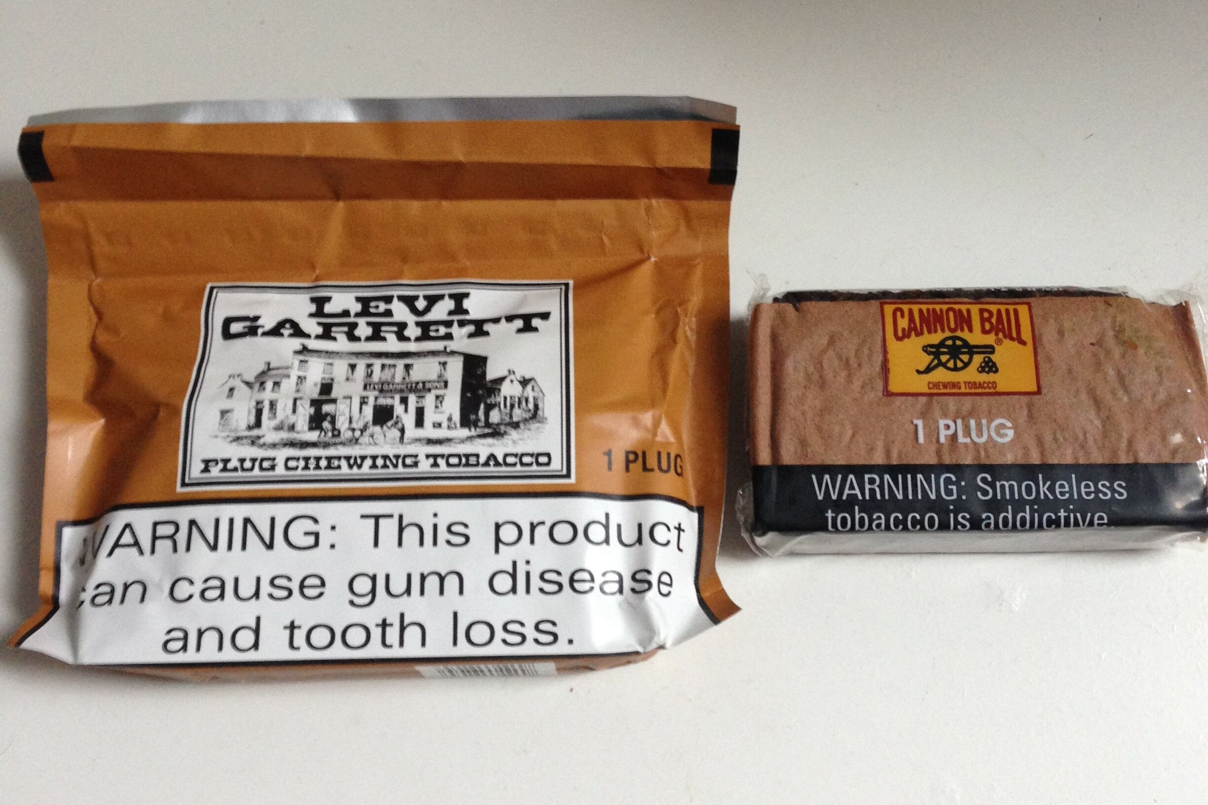 A selection of plug chewing tobaccos from the United States.